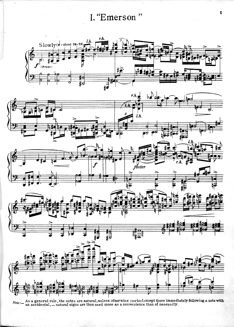 Charles Ives Concord Sonata beginning